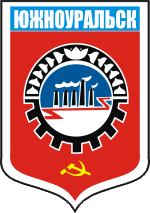 Yuzhnouralsk (Chelyabinsk oblast), coat of arms (1969)